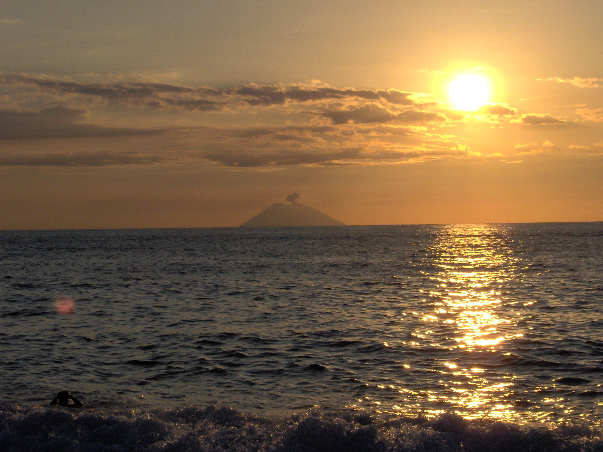 This is a picture of Stromboli